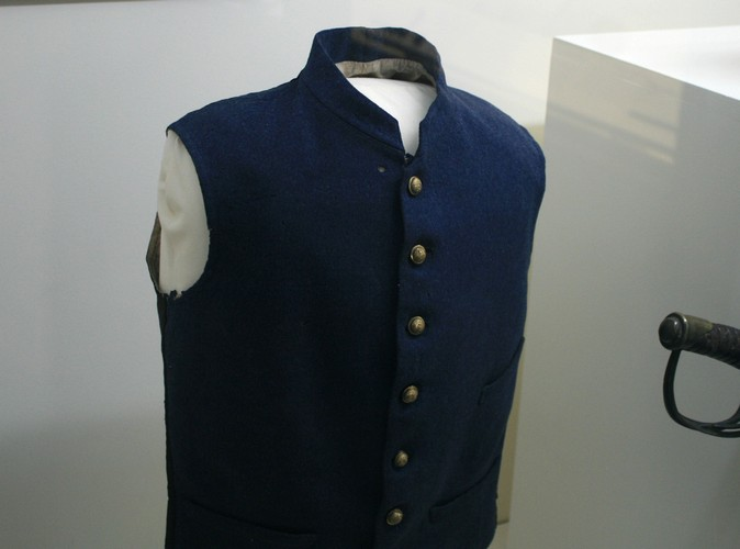 Vest of leit.-gen Ambrose P. Hill